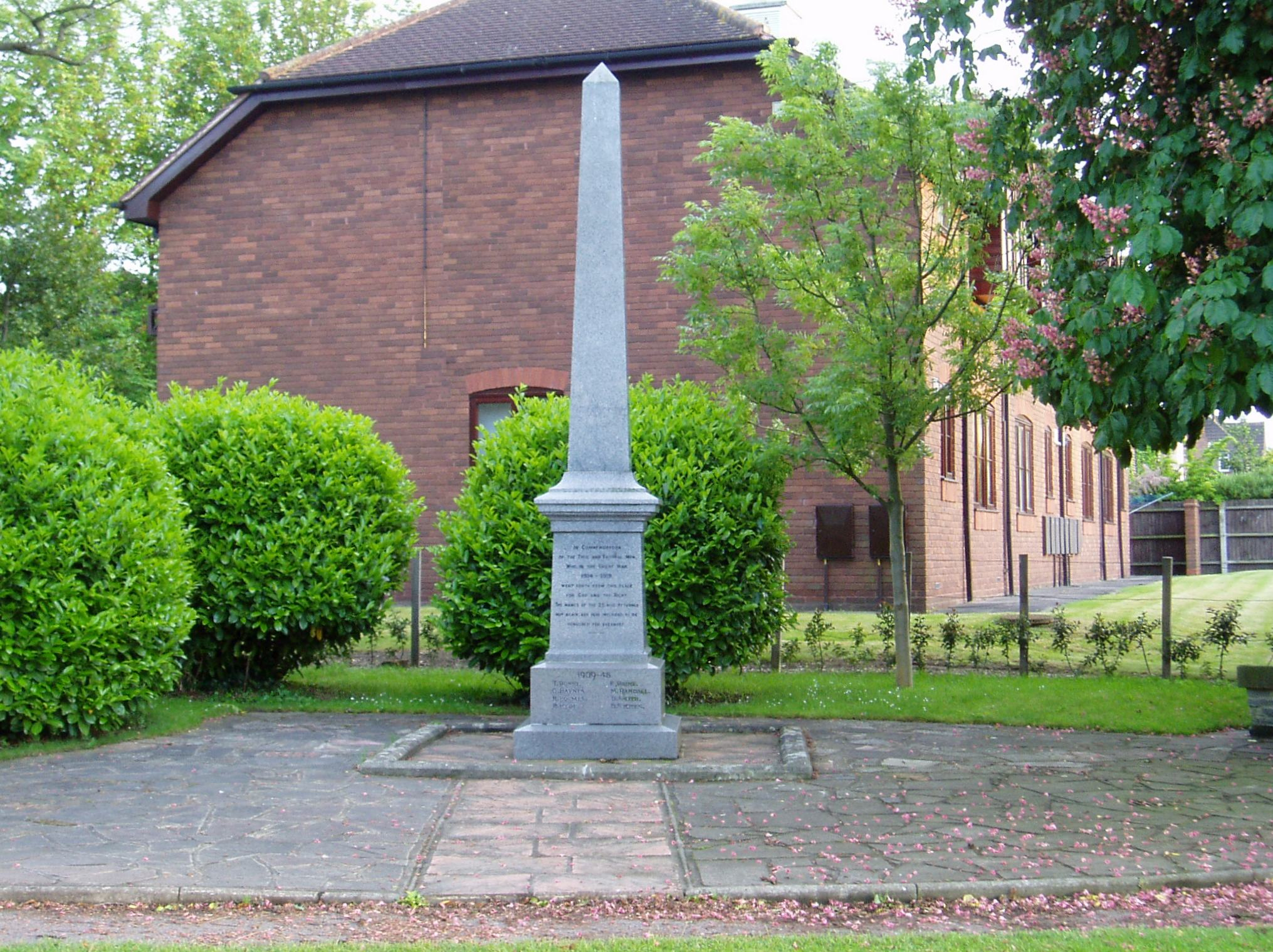 A photograph of the Barton-le-Clay War Memorial.